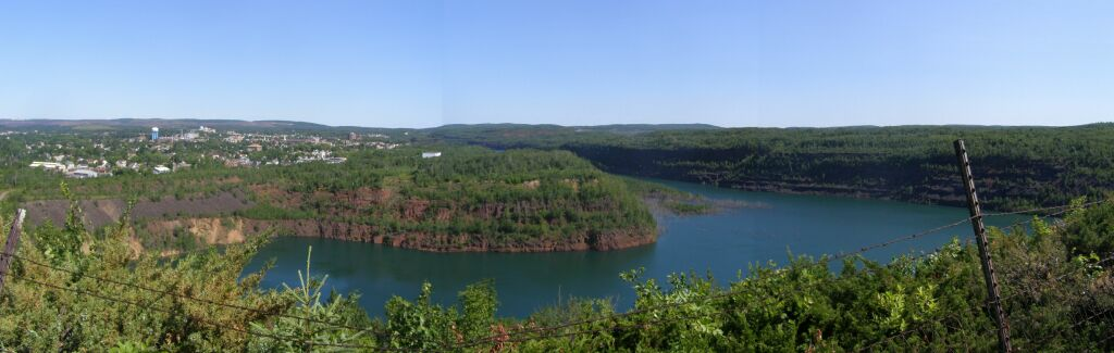 View of old open pit iron mine